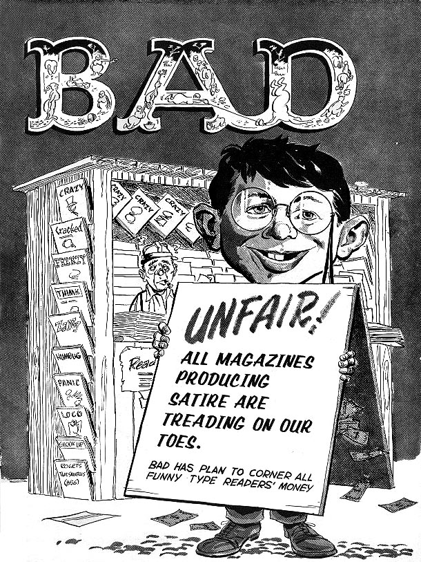 A parody of Mad Magazine's perennial mascot, Alfred E. Neuman, featured in This Magazine is Crazy vol. 4, number 8, page 44. (Charlton, March 1959). The magazine appeared to be a good-natured parody of Mad, utilizing the talents of some of the latter's artists and writers.